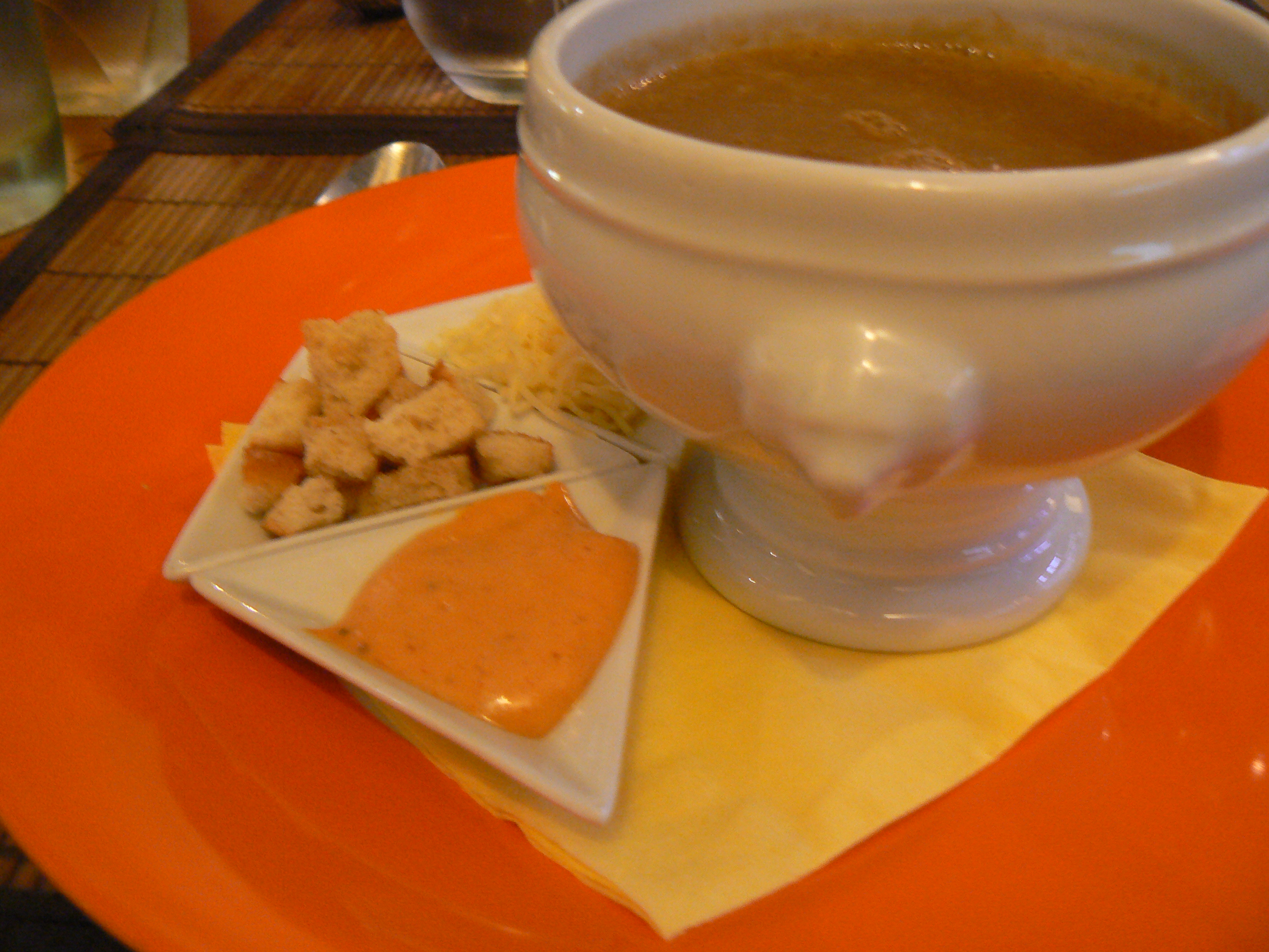 Occitan rouille sauce served as a topping of a fish soup. This sauce could remind some people some industrial recipes of Spanish "salsa brava", eaten as a potato topping at "patatas bravas".